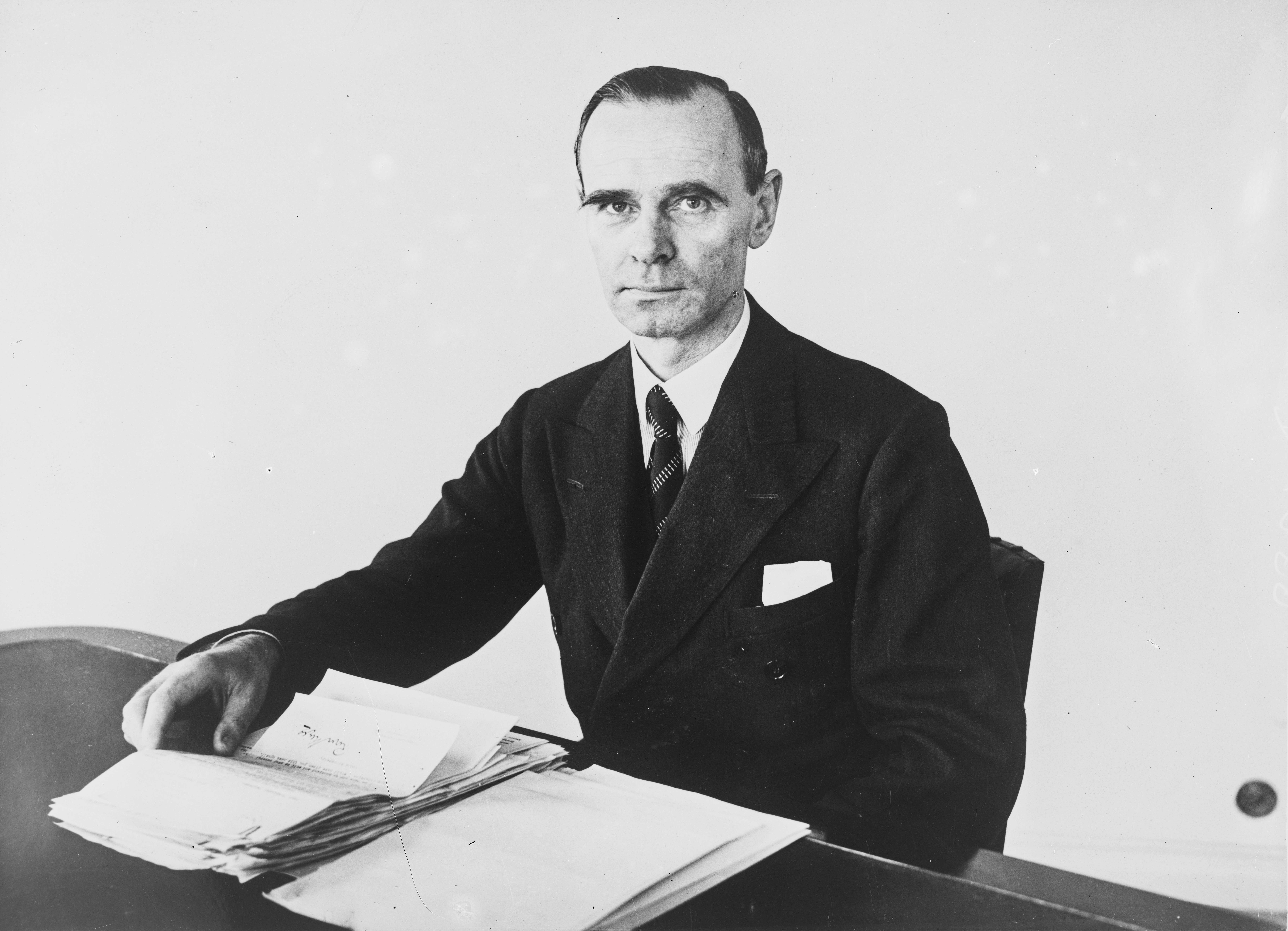 Statsråd Birger Ljungberg. (Original bildetekst)